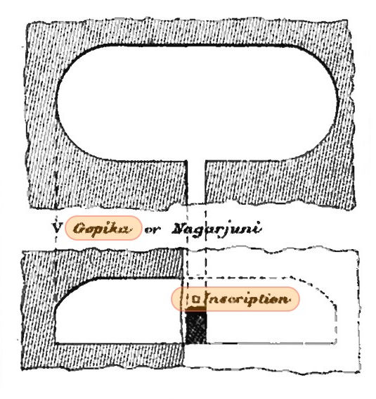 Gopika cave plan